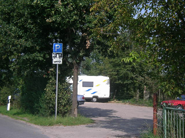 Motorhome stopover site ("Stellplatz") in Kleve-Schenkenschanz, Germany.